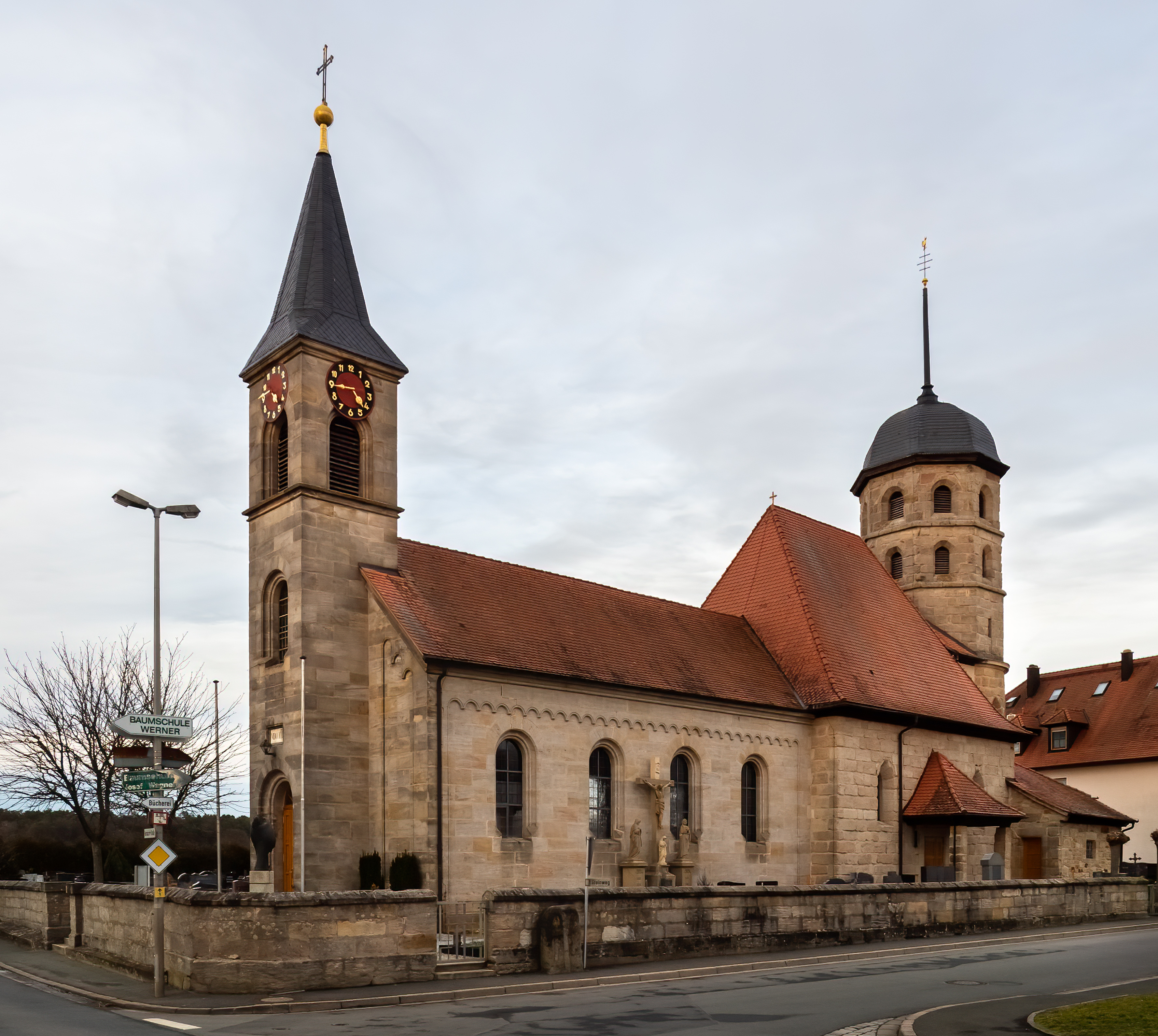 Catholic parish church Mariä Opferung in Poxdorf near Forchheim